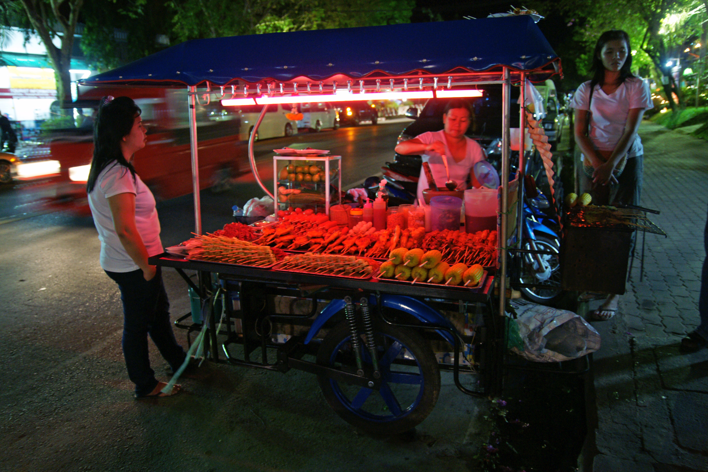 A tuk-tuk selling grilled food on a street of Ao Nang, Krabi, Thailand.